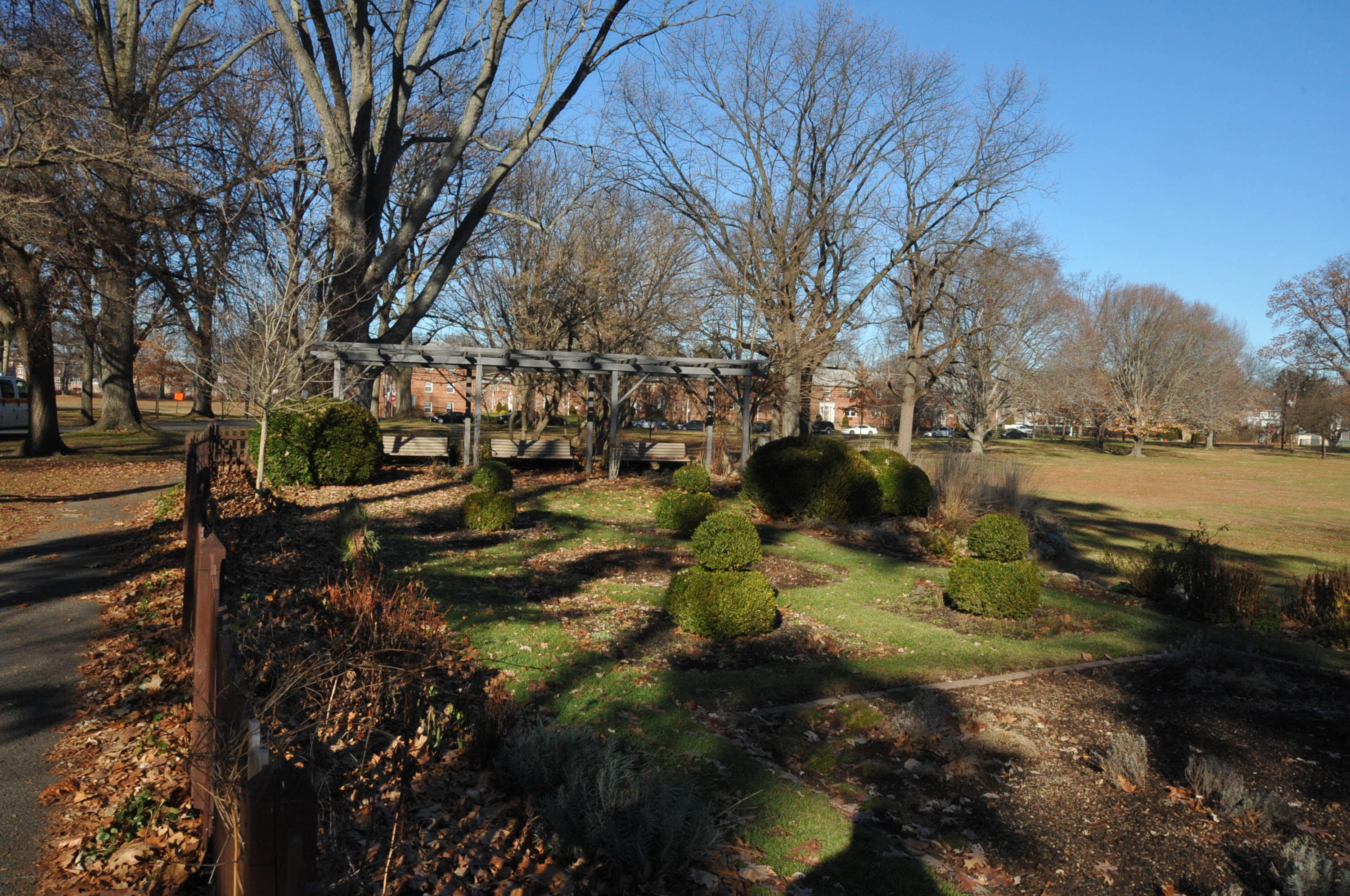 SHAKESPEARE GARDEN IS A RE-CREATION OF THE GARDEN THAT MIGHT HAVE EXISTED DURING SHAKESPEAR LIFETIME. IT WAS CREATED BY PLAINFIELD GARDEN CLUB